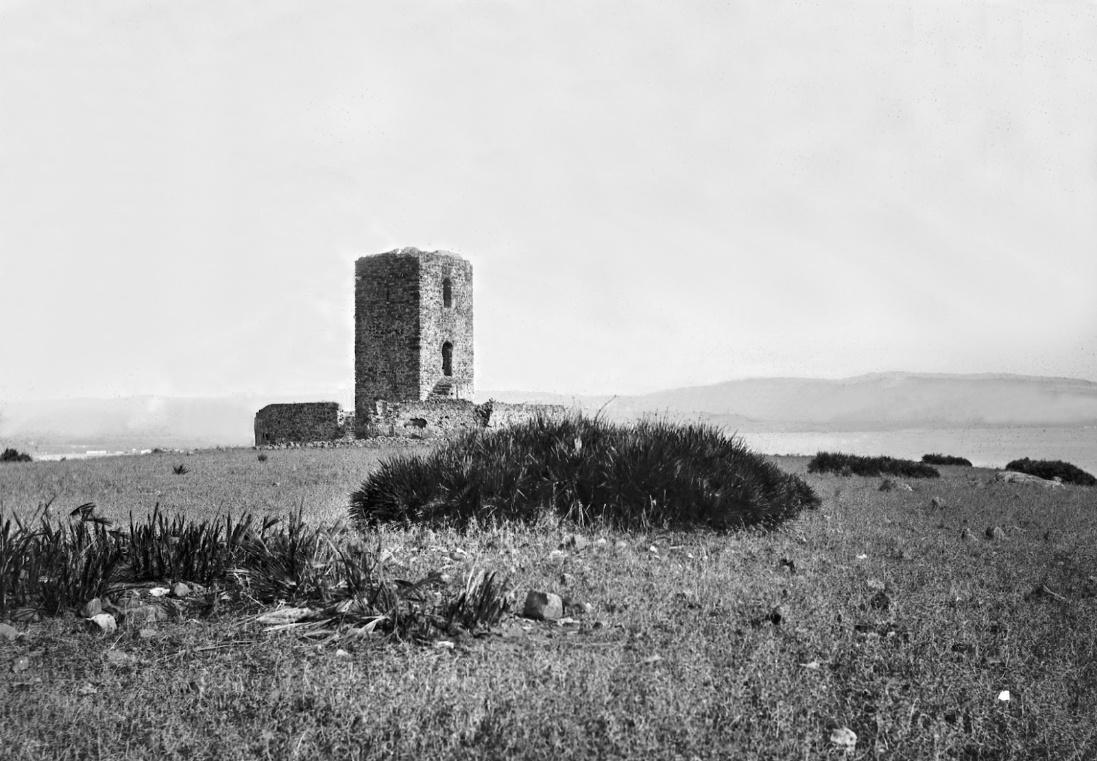 Tower Near Algeciras - Photograph by George Washington Wilson taken in the 1870-1890s in Campo de Gibraltar in Southern Spain just north of Gibraltar. Pictures found by Neville Chipolina